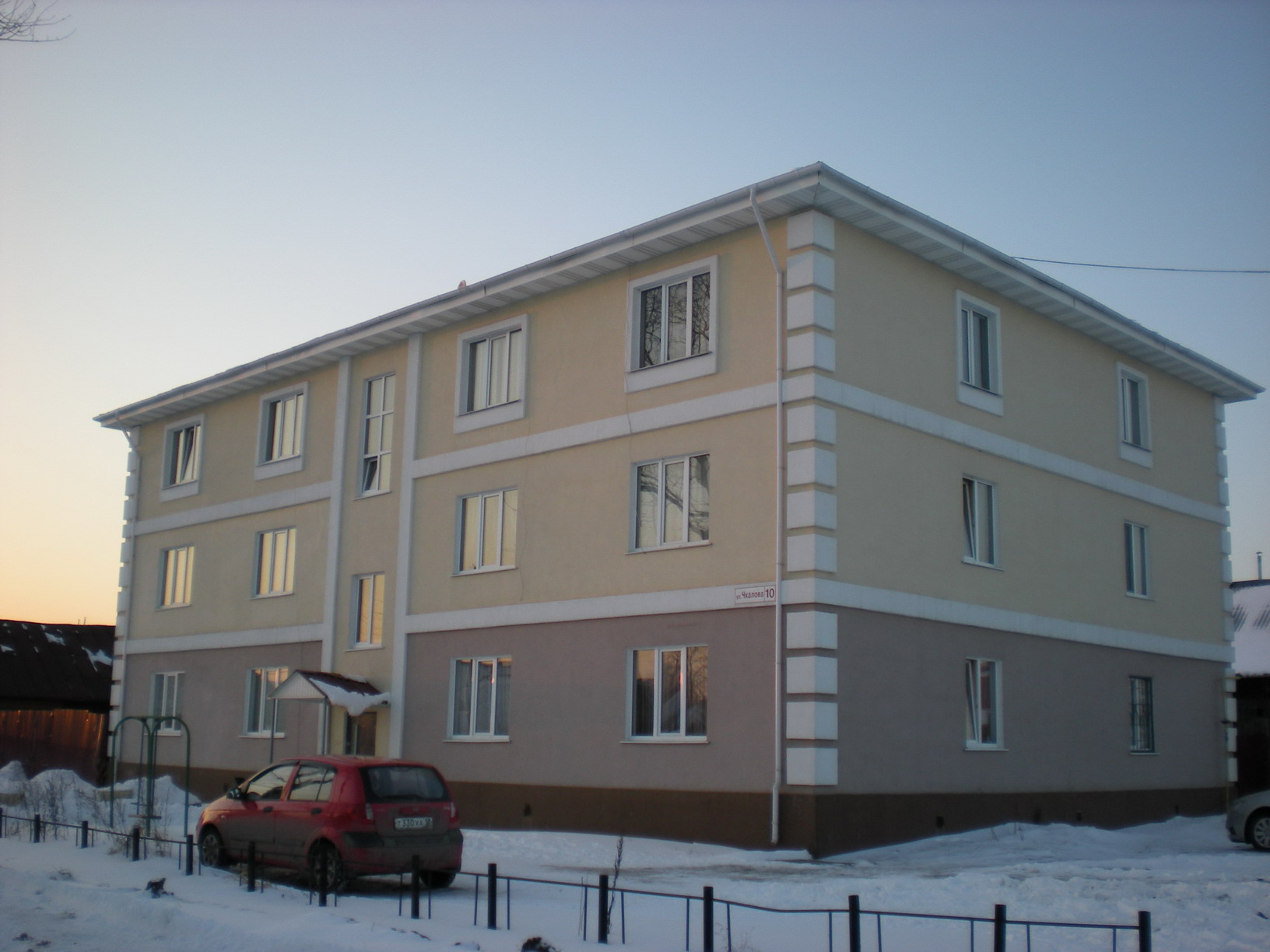 House No 10 in the Chkalov Street in Izhevsk (Udmurtia) Удмурт: 10-тӥ номеро юрт Чкалов урамын Иж карын (Удмуртия)